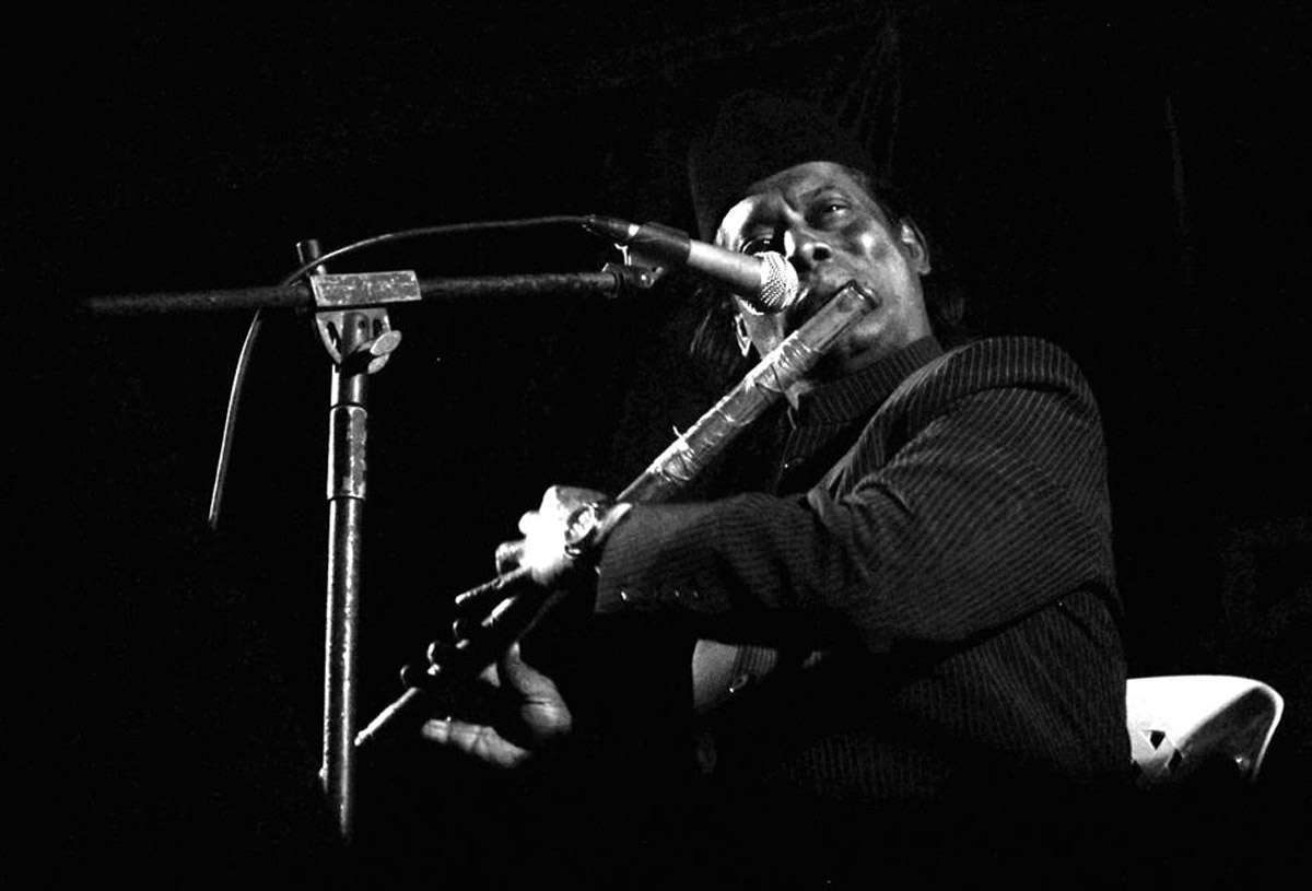 Bari Siddiqui at reunion concert in SUST campus, 2012